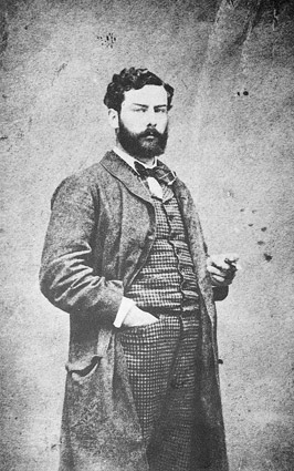 A 1882 photograph of Alfred Sisley (1839–1899), Impressionist painter.